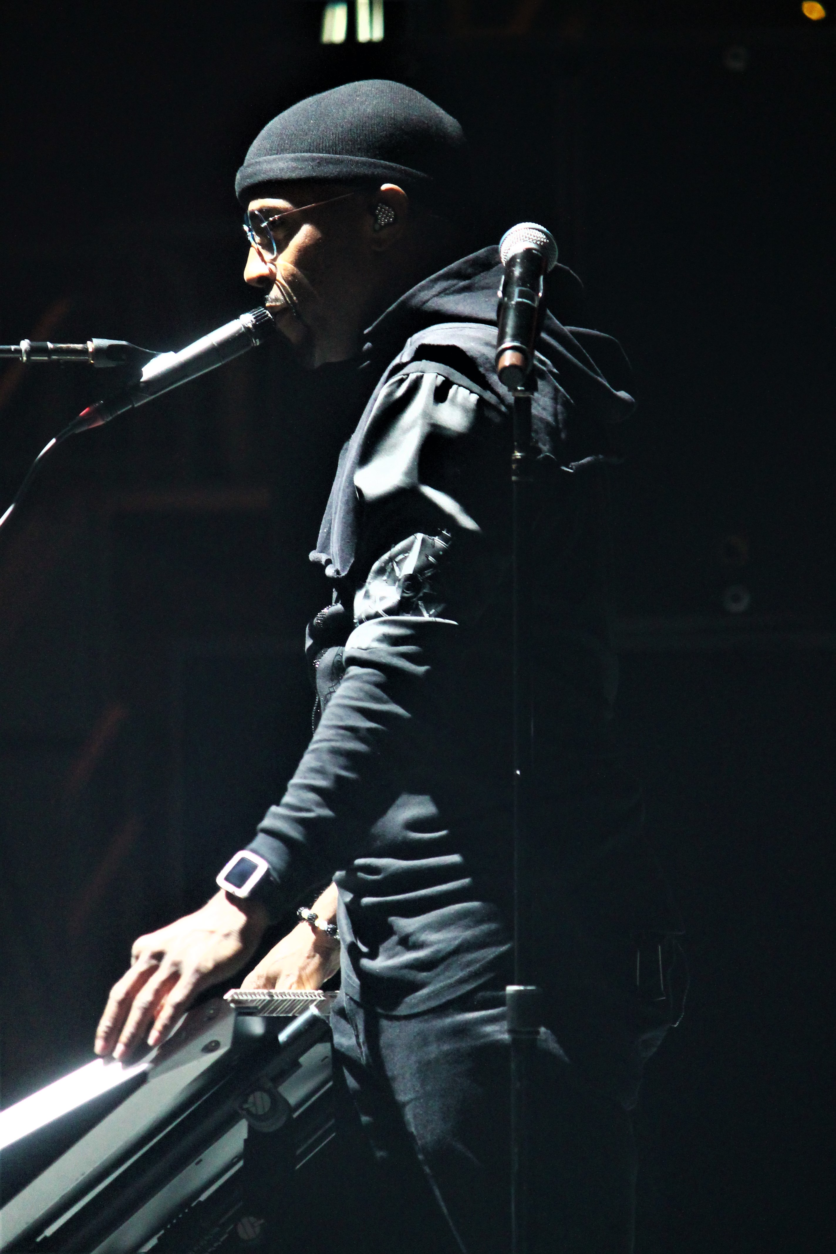 Sound check with Teddy Riley